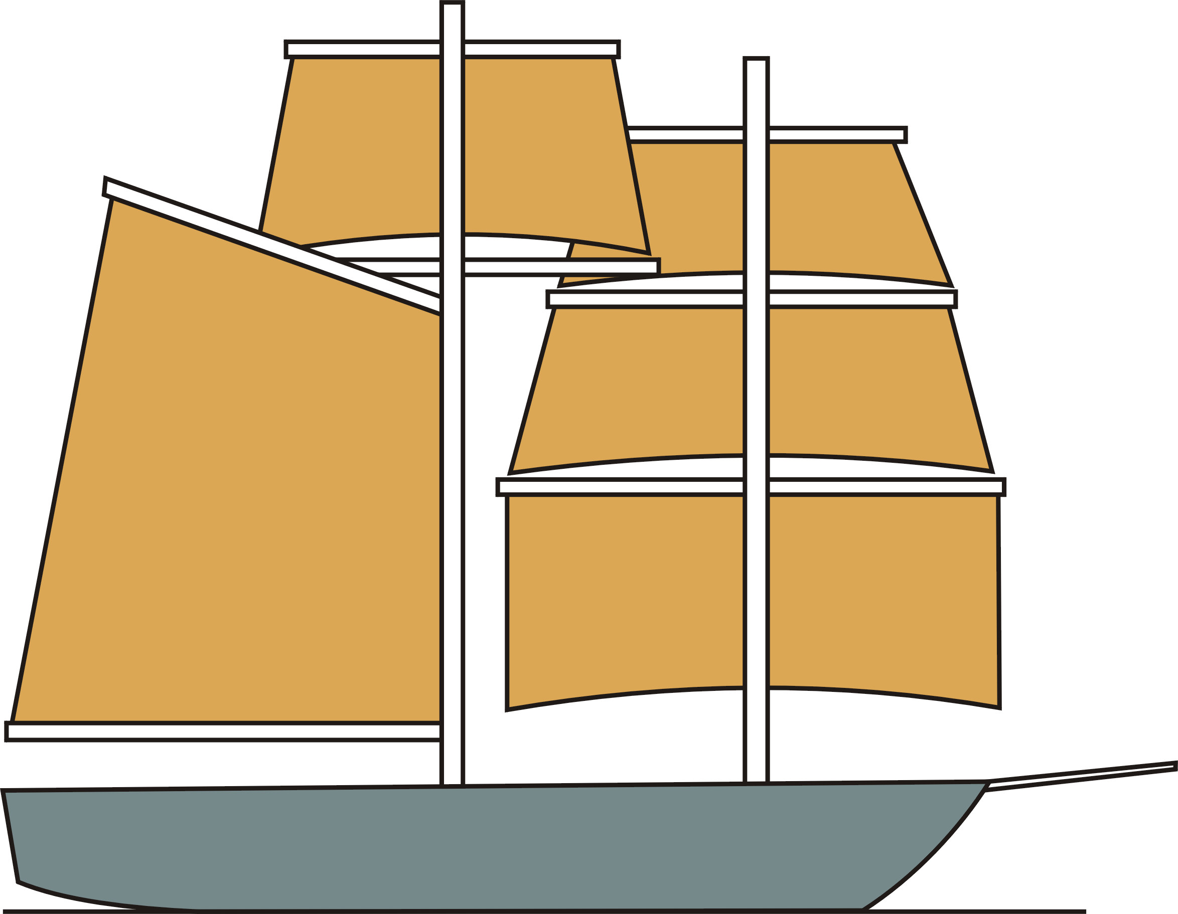 Brigantine